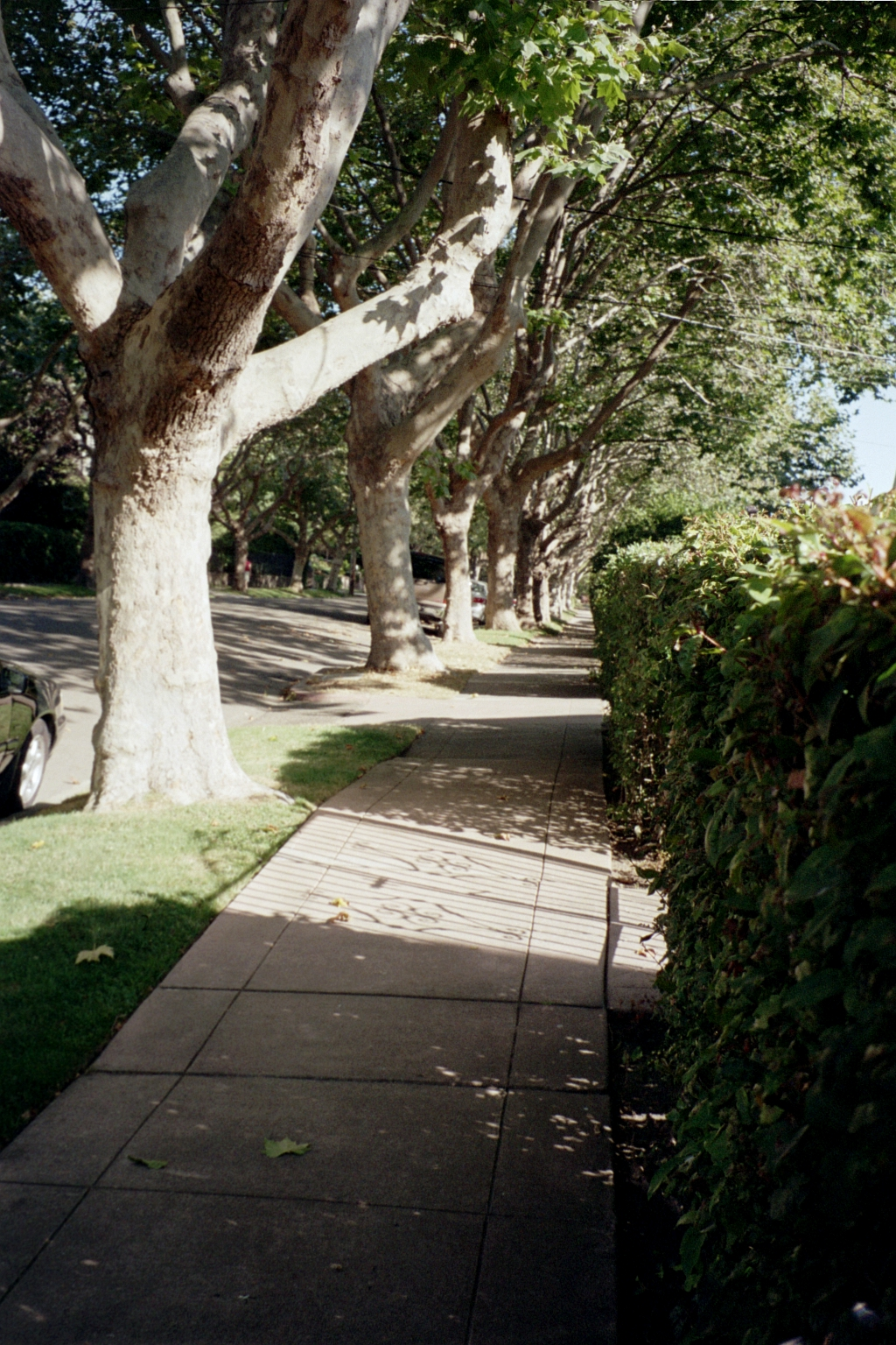 El Cerrito Ave in Piedmont, California.